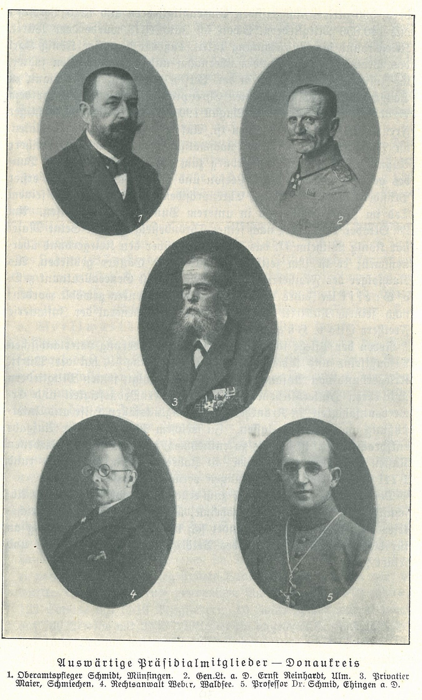 Fotograph of Carl Christian Maier (1851-1938), owner of a cotton spinning mill in Schmiechen (Schelklingen), deputy of the Representative Assembly of Württemberg (Landtag) for the Oberamt Blaubeuren, functionary of the veteran's association of Württemberg (Württembergischer Kriegerbund)